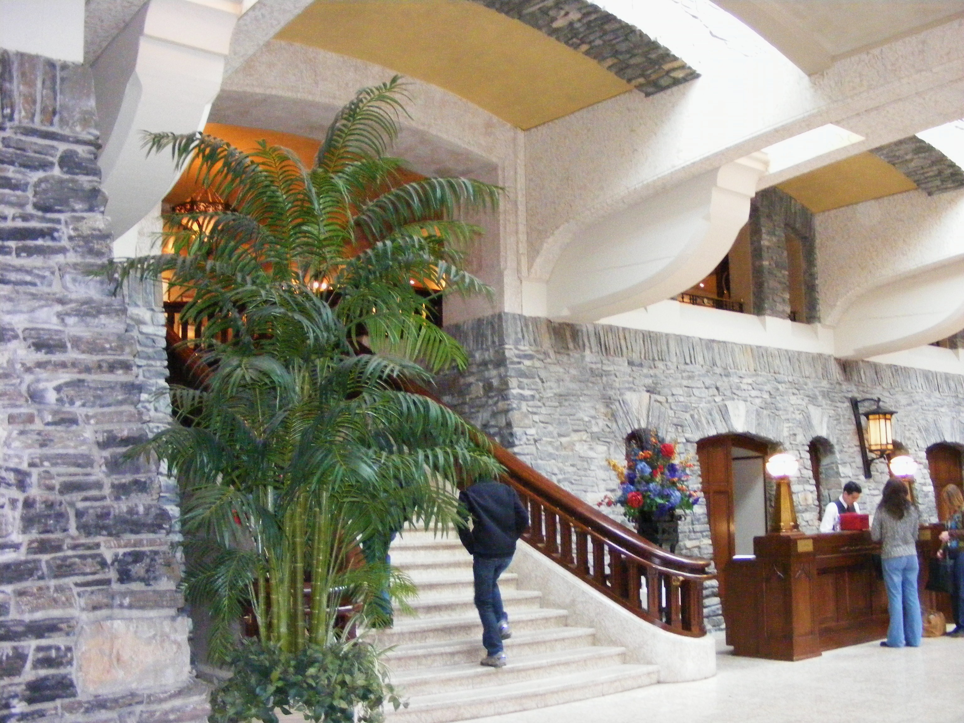 Grand staircase in the main lobby of the Banff Springs Hotel. Banff, Alberta, Canada